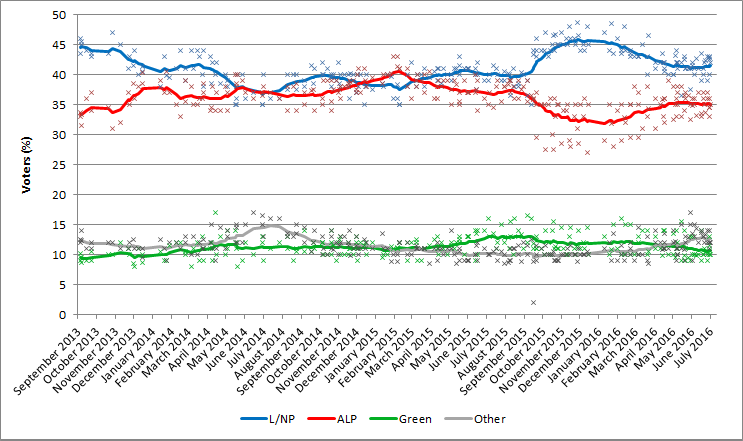 Aggregate of primary vote election polling for the next Australian federal election. The graph uses a exponentially weighted moving average with a half-life of 14 days (this corresponds to an α of 0.9517) in the past, and 14 days in the future (with half the absolute weighting).